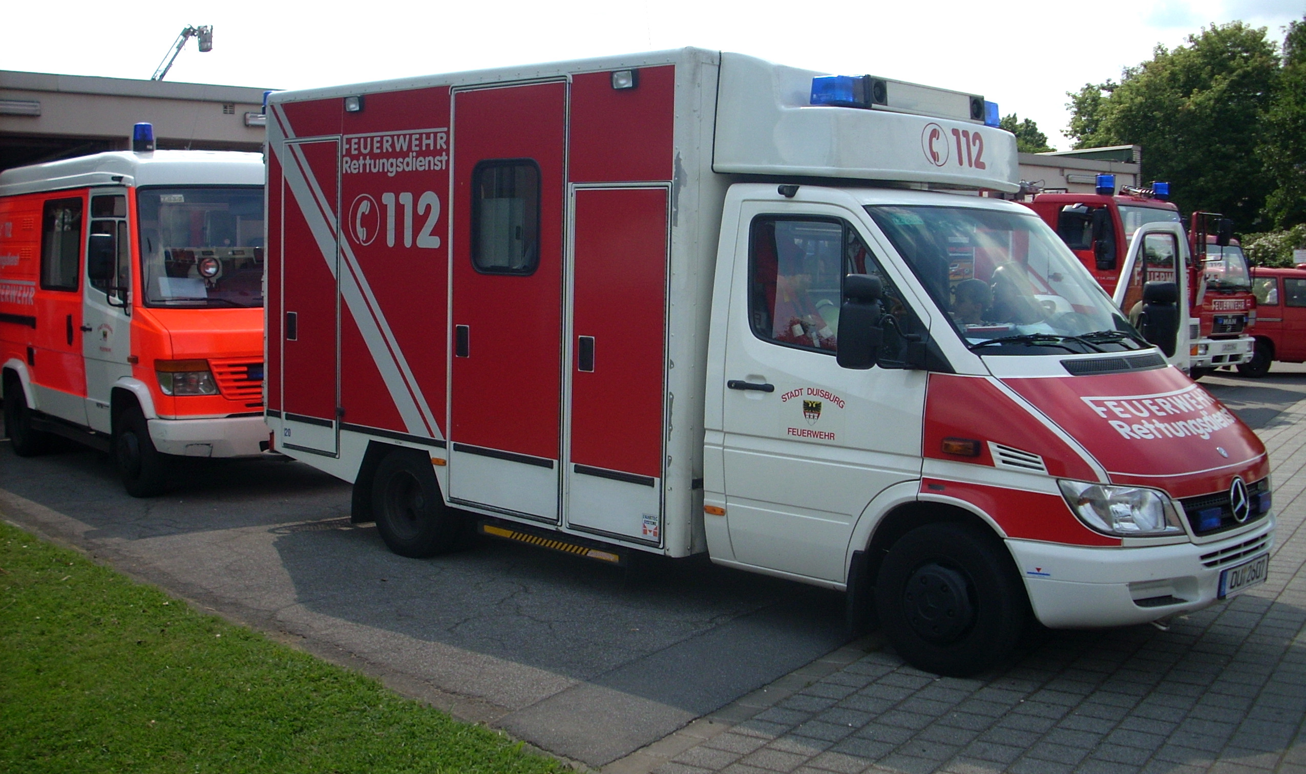 An ambulanec of the professional fire brigade duisburg